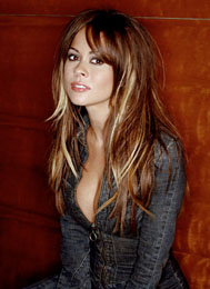 Brooke Burke photographed by Jerry Avenaim for the cover of Razor Magazine.